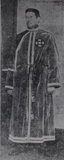 J.H. Hawkins, Ku Klux Klan organizer in regalia.